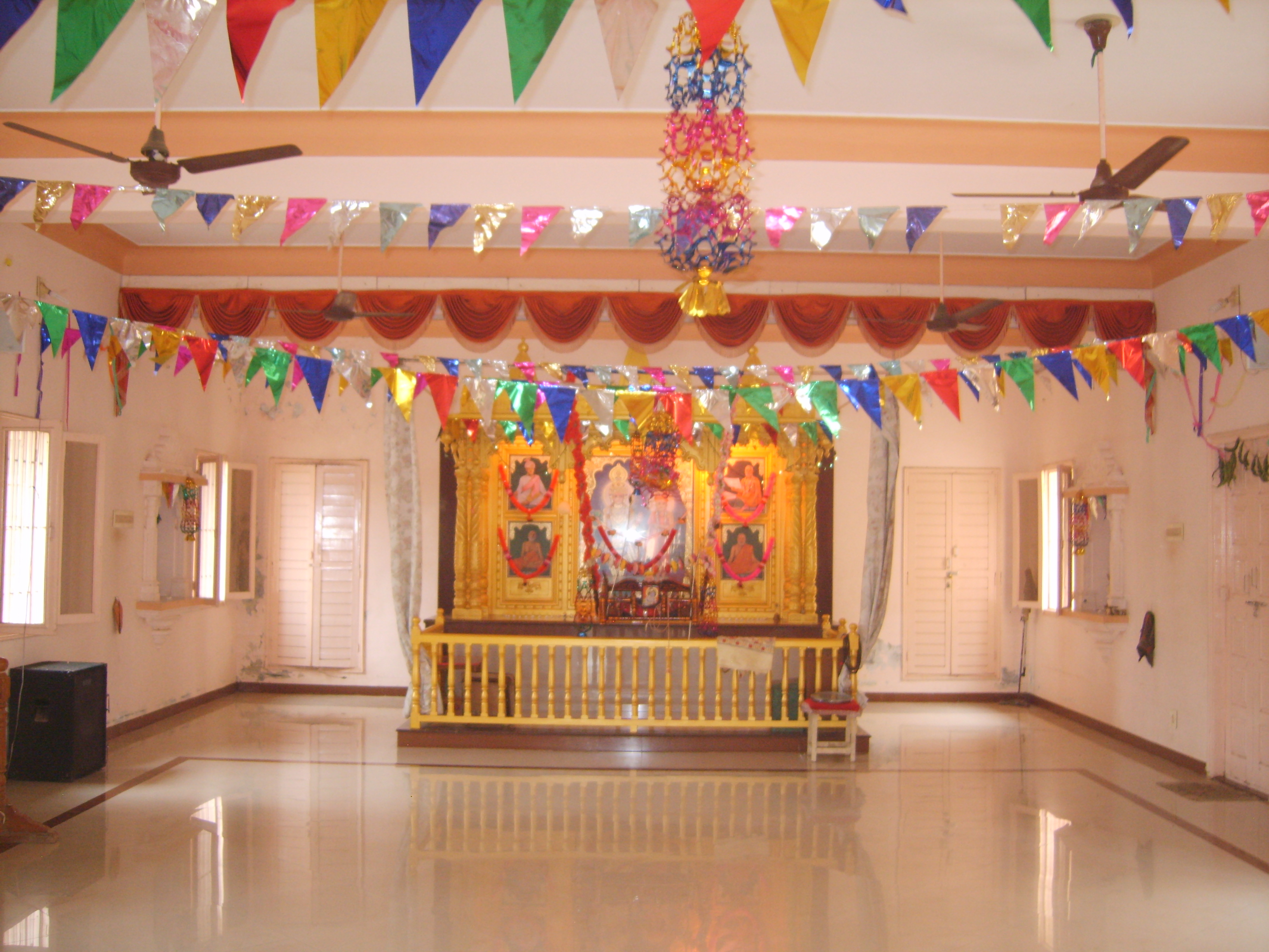 BAPS Mandir, Isnav